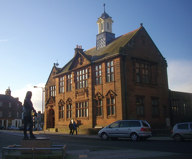 Montrose Library The official opening of Montrose Public Library took place on 19 October 1905. It was opened by Scots born American philanthropist Andrew Carnegie (1835-1919)who gave £7500 towards the construction. Architecturally described as a "union of the picturesque and graceful with dignity and solidity".